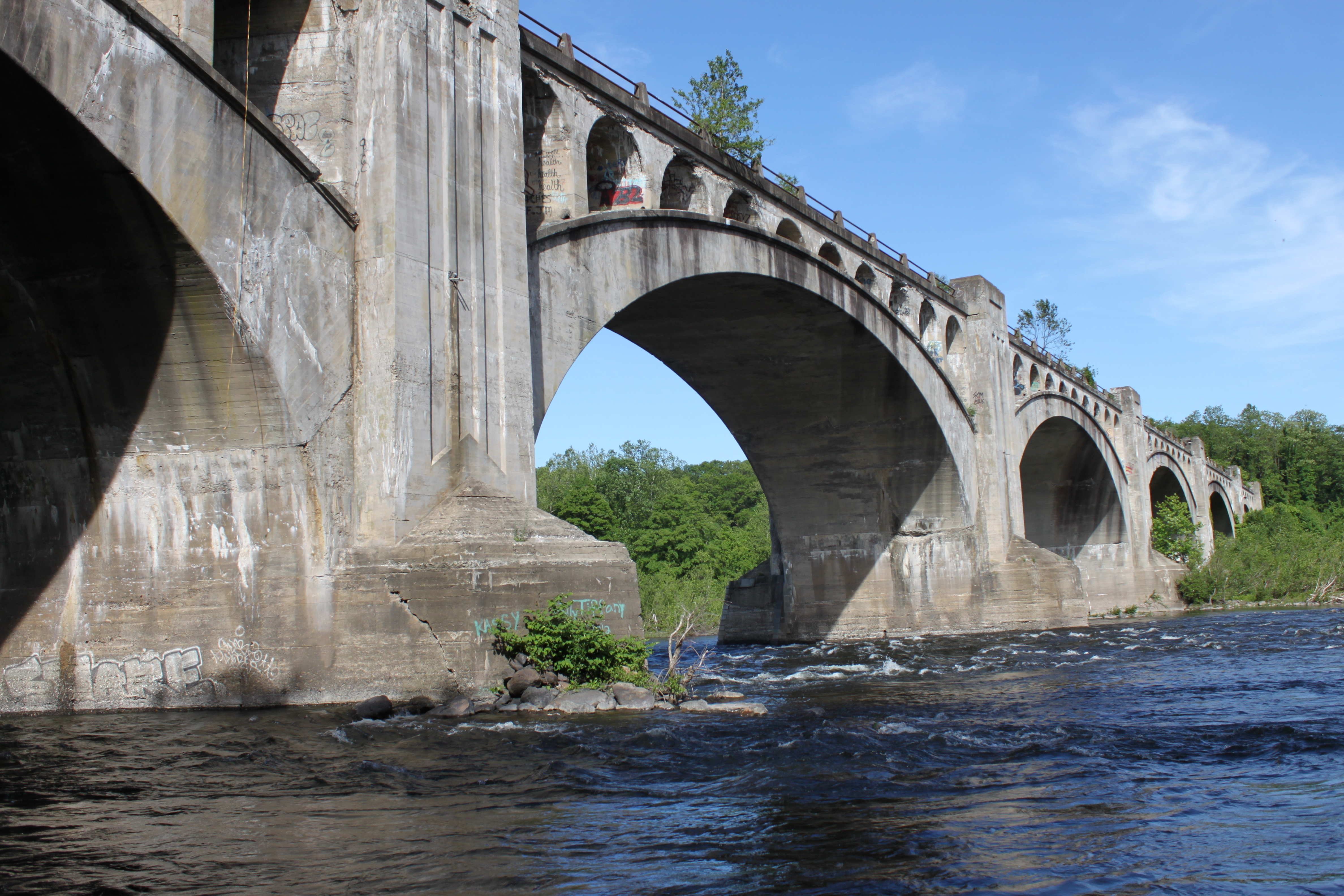 Photo of the Delaware River Viaduct over the Delaware River on the Lackawanna Cut-Off looking from the Pennsylvania shoreline towards the New Jersey shoreline (eastbound on the railroad).